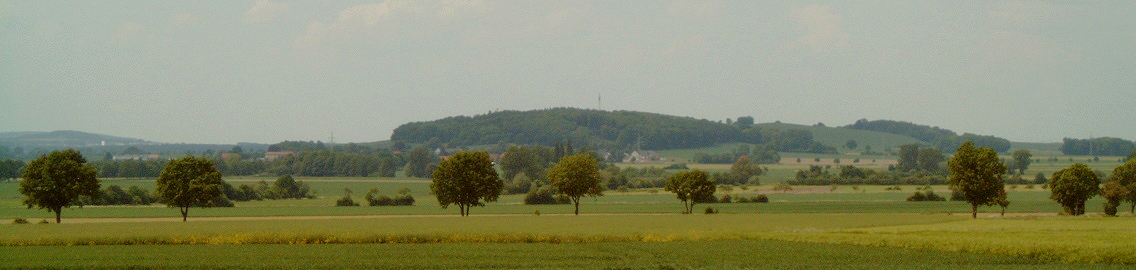 "Stemmer Berg" in "Calenberg" country